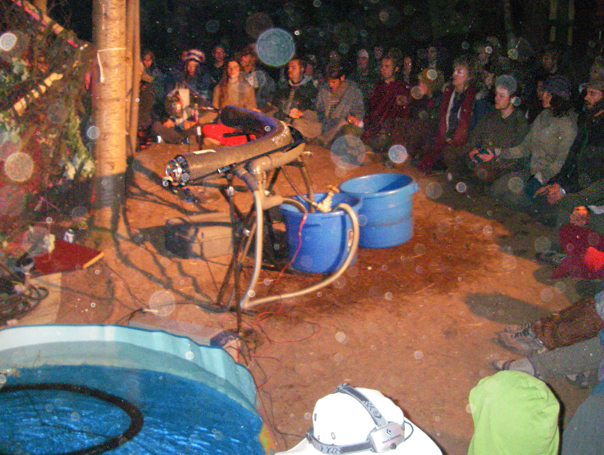 People forming an "OM Circle" while seated. Please are sitting in a circle around Nessie the hydraulophone